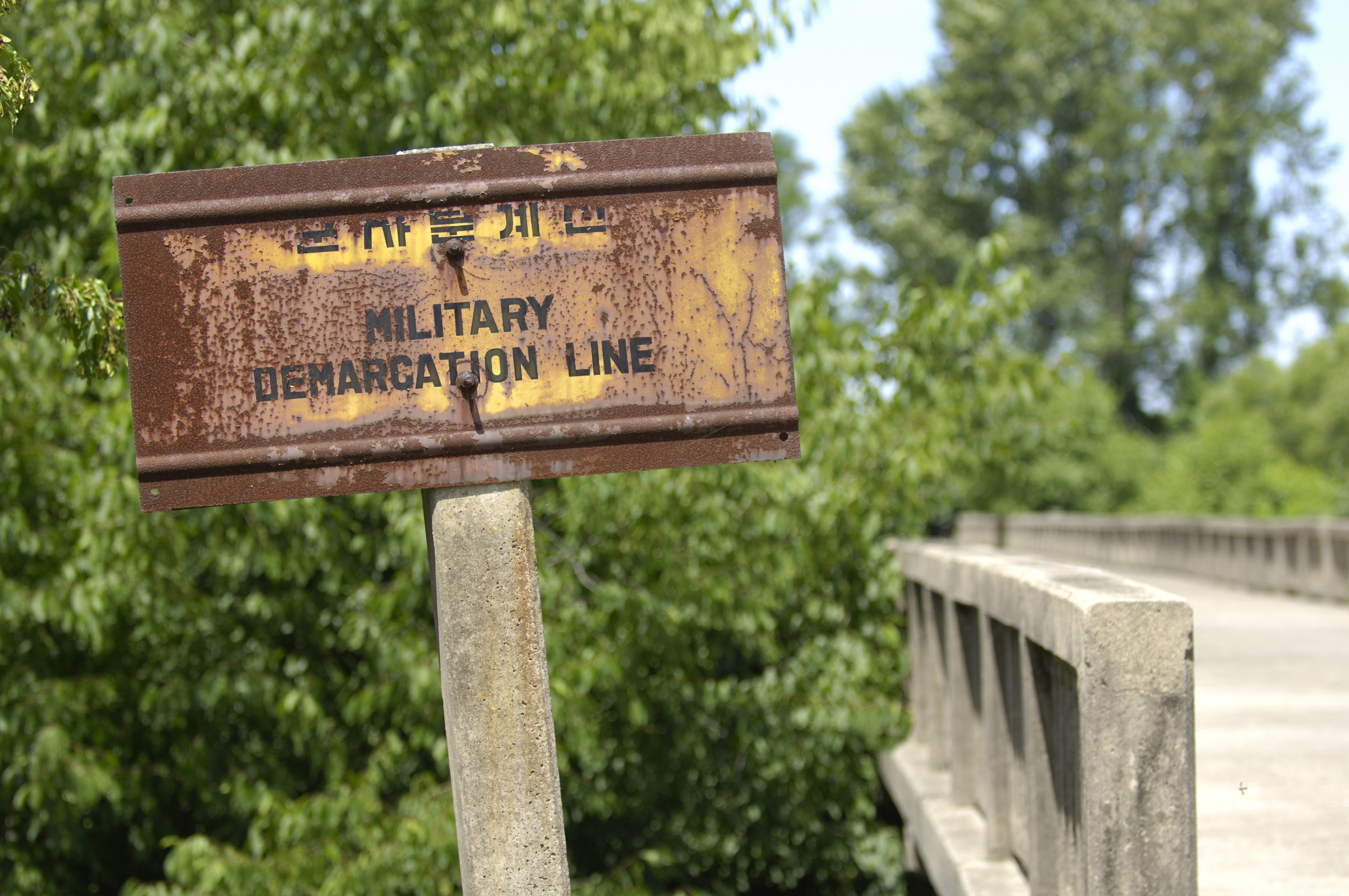 Inside the Korean Demilitarized Zone. Military Demarcation Line sign on the south side of the Bridge of No Return. U.S. Army official Korean Demilitarized Zone image archive